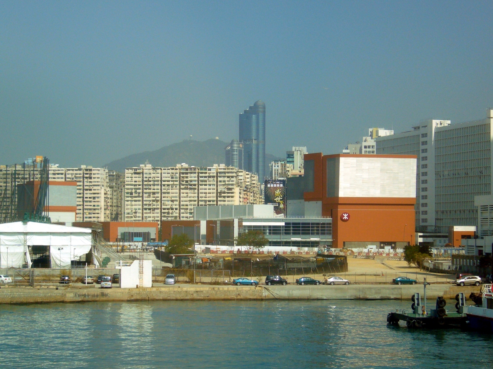 Austin Station as on 3-Feb-2009